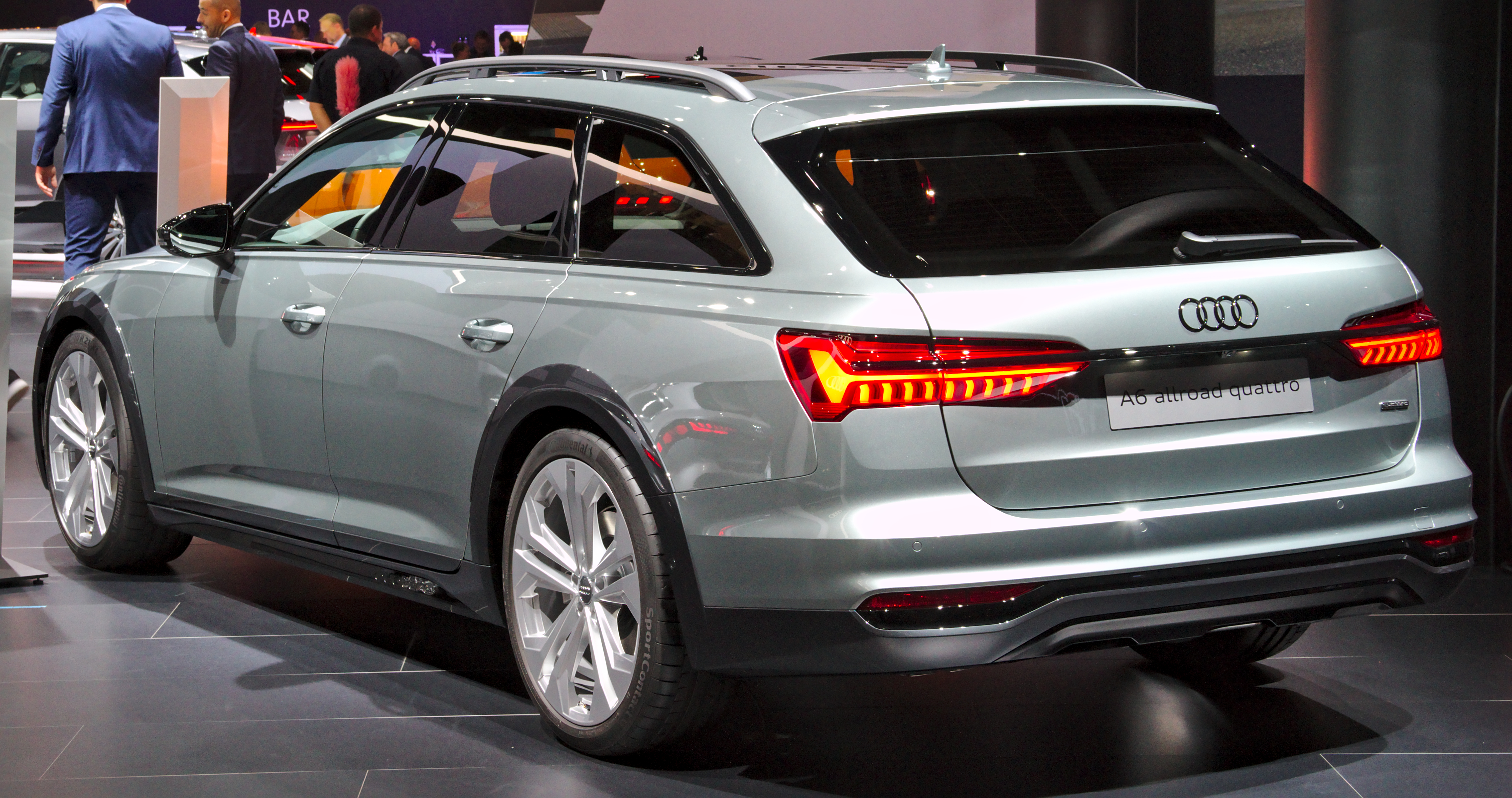 Audi A6 Allroad Quattro C8 at IAA 2019